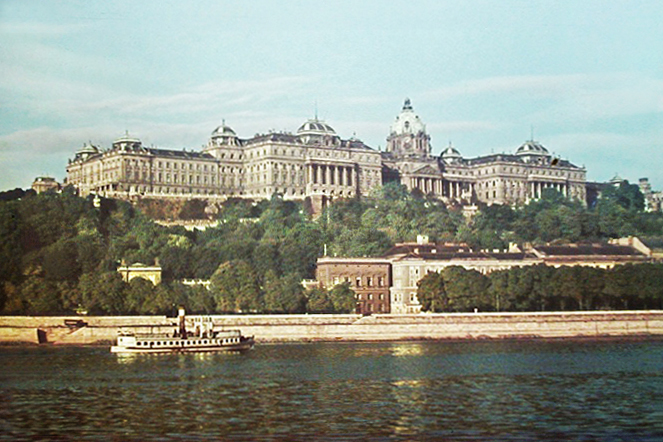 Royal Castle of Budapest, before World War II.